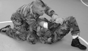 Two soldiers demonstrate a figure four toe hold sumbission.